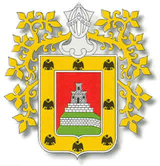 Escudo de Cuzco